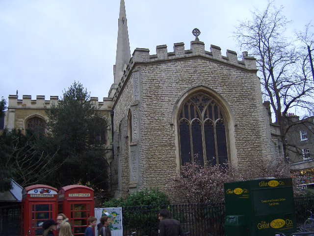 Holy Trinity Church in Cambridge where Thomas Rawson Birks was the vicar